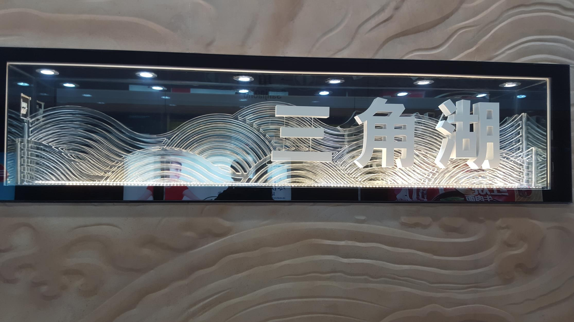 Name Box of Sanjiaohu Station